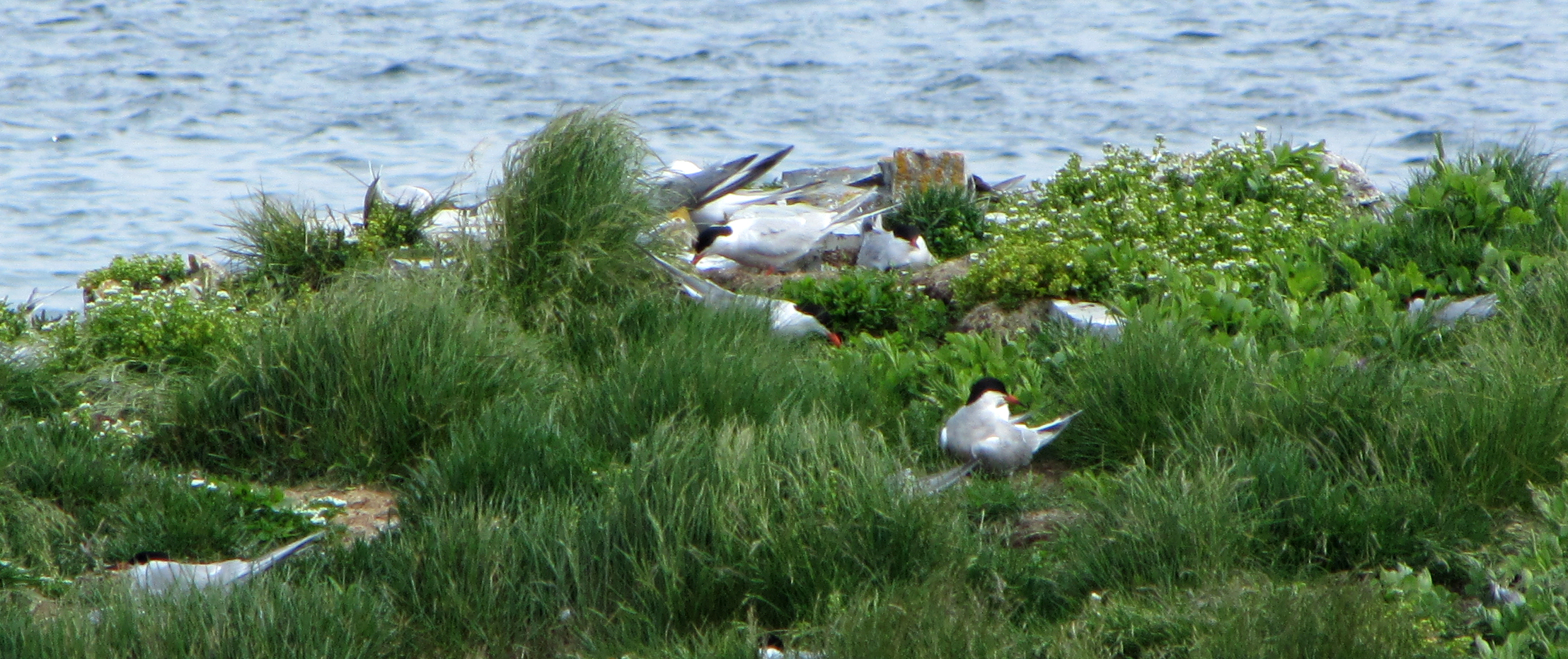 Common Terns (Sterna hirundo), nesting, Elliston, Newfoundland and Labrador